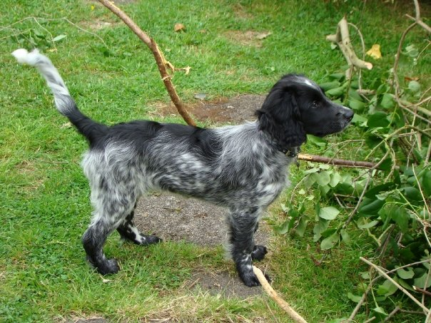 Blue Roan colored French brittany puppy of the working variety.